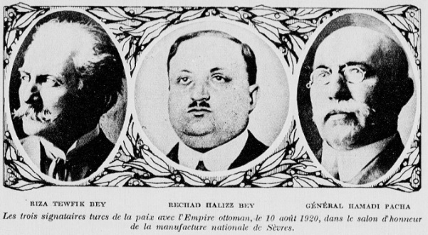 Ottoman delegation that signed the Treaty of Sèvres.